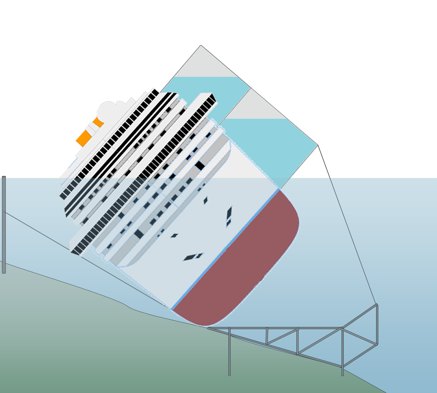 Rightening of Costa Concordia - stage 2 of 4. A process called parbuckling used pulling cables and metal boxes with water and welded to the ship's sides to roll it upright. The procedure took 19 hours to complete at Giglio island. Once the ship had rotated to 25 degrees, no further pulling was required as it continued to rotate under its own weight.